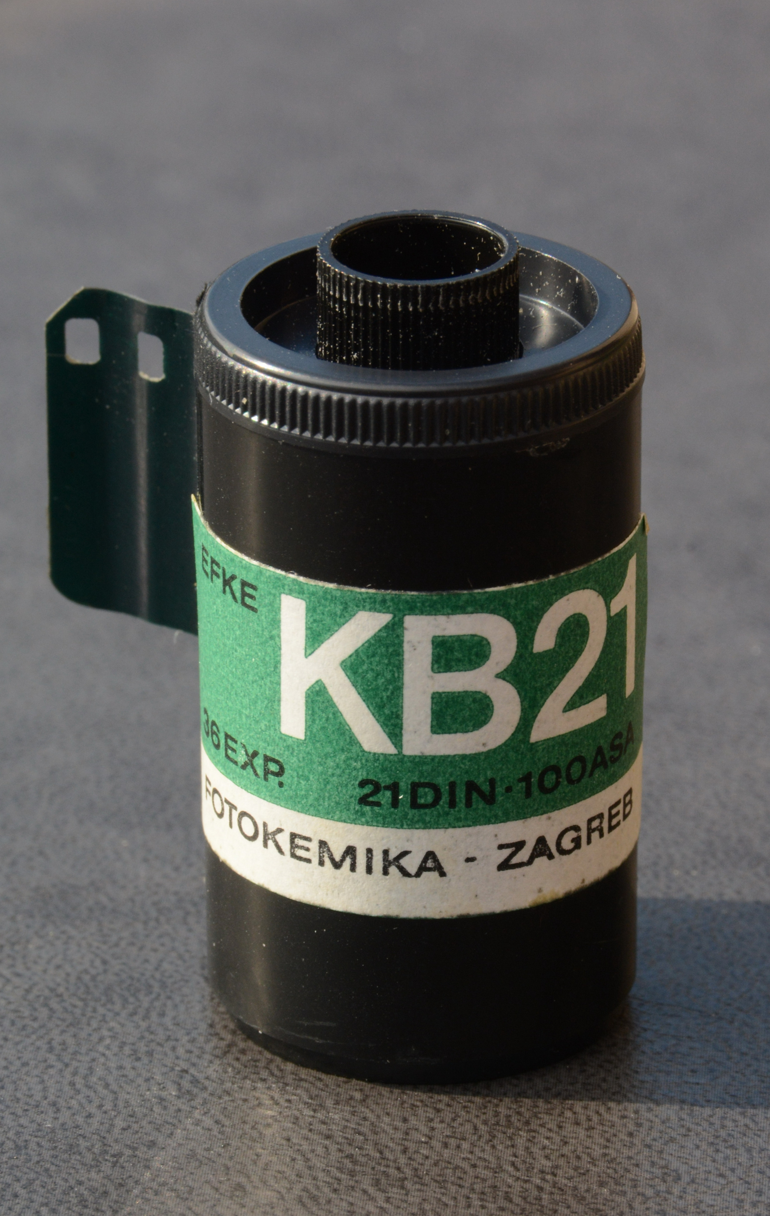 EFKE KB21 Black & white film (Fotokemika - Zagreb); 21 DIN/100ASA